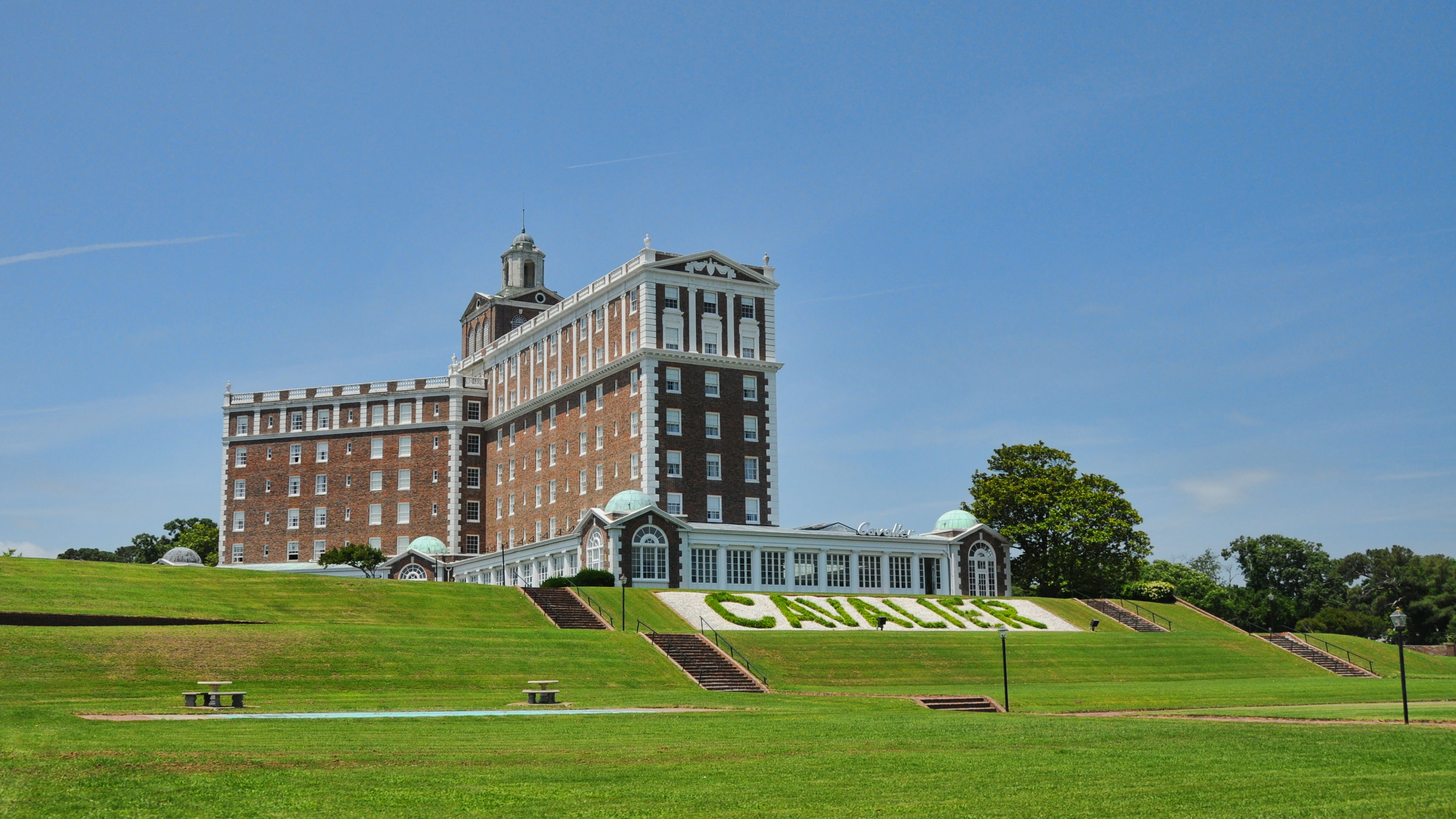 Since the opening of the hotel in 1927, the “Cavalier on the Hill” has entertained seven US Presidents: Calvin Coolidge, Herbert Hoover, Harry Truman, Dwight Eisenhower, John Kennedy, Lyndon Johnson, and Richard Nixon. more here is the link localize [?]